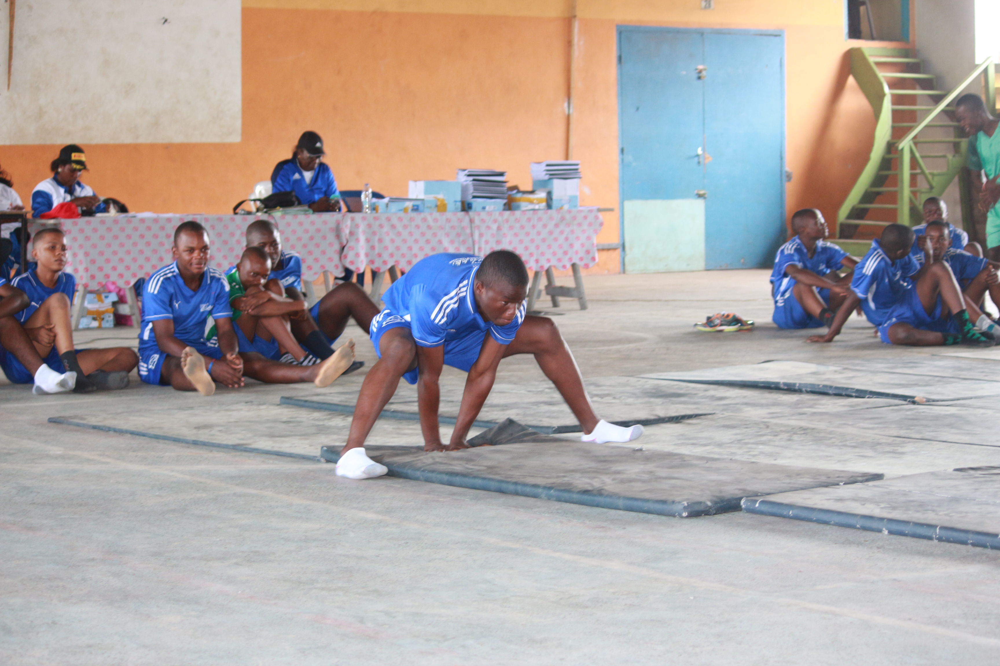 Les élèves pendant le cours d'éducation physique et sportive dans un collège de la ville de Douala This is an image of "African people at work" from Cameroon